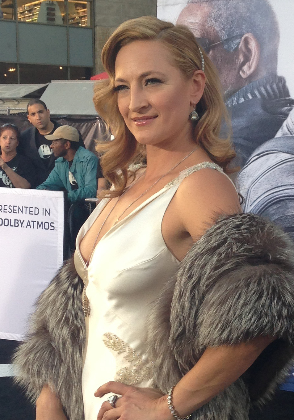 Zoe Bell at Oblivion Premiere